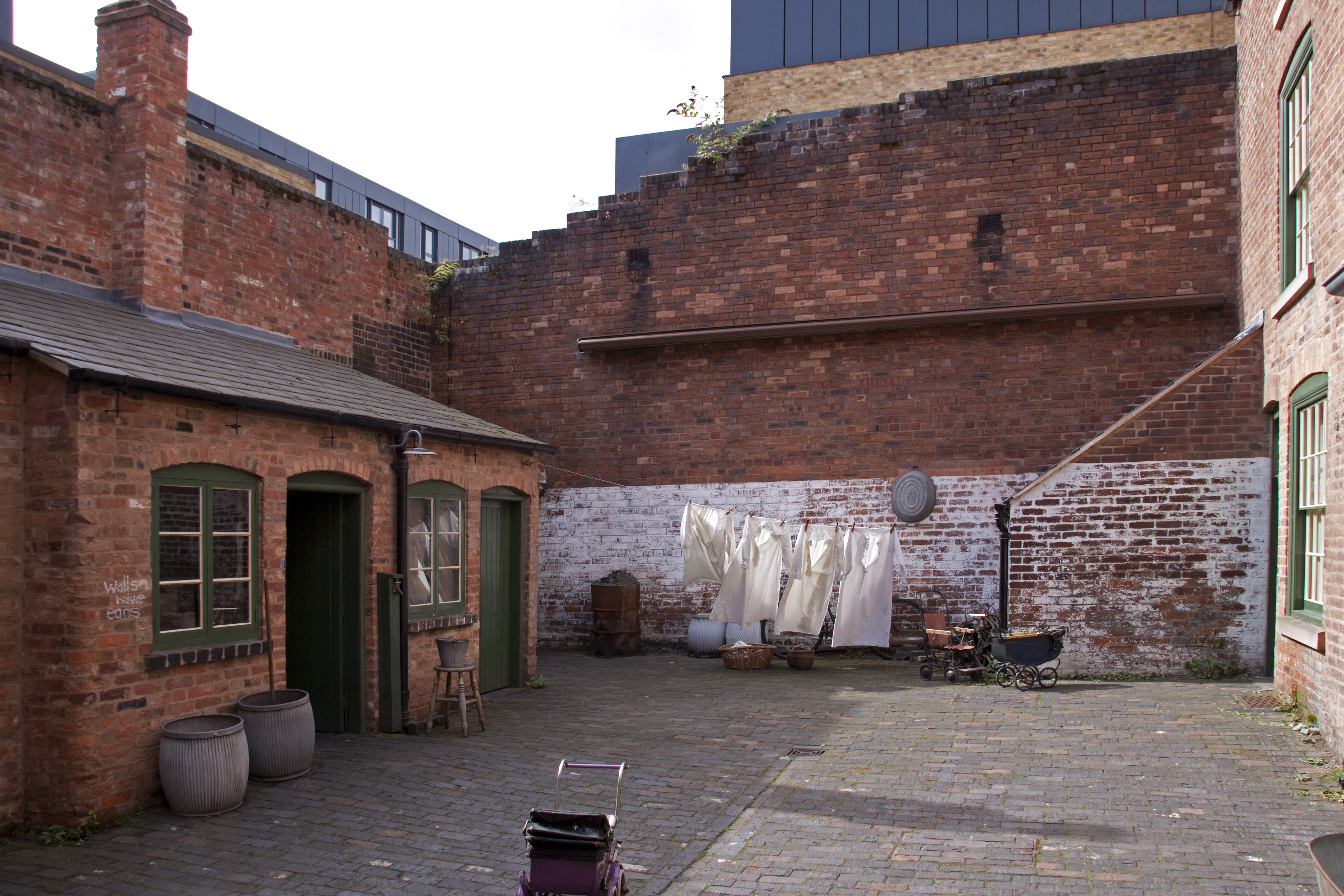 We had never been to the Back to backs in Birmingham even though the car park we often use is only a few minutes walk from the houses.